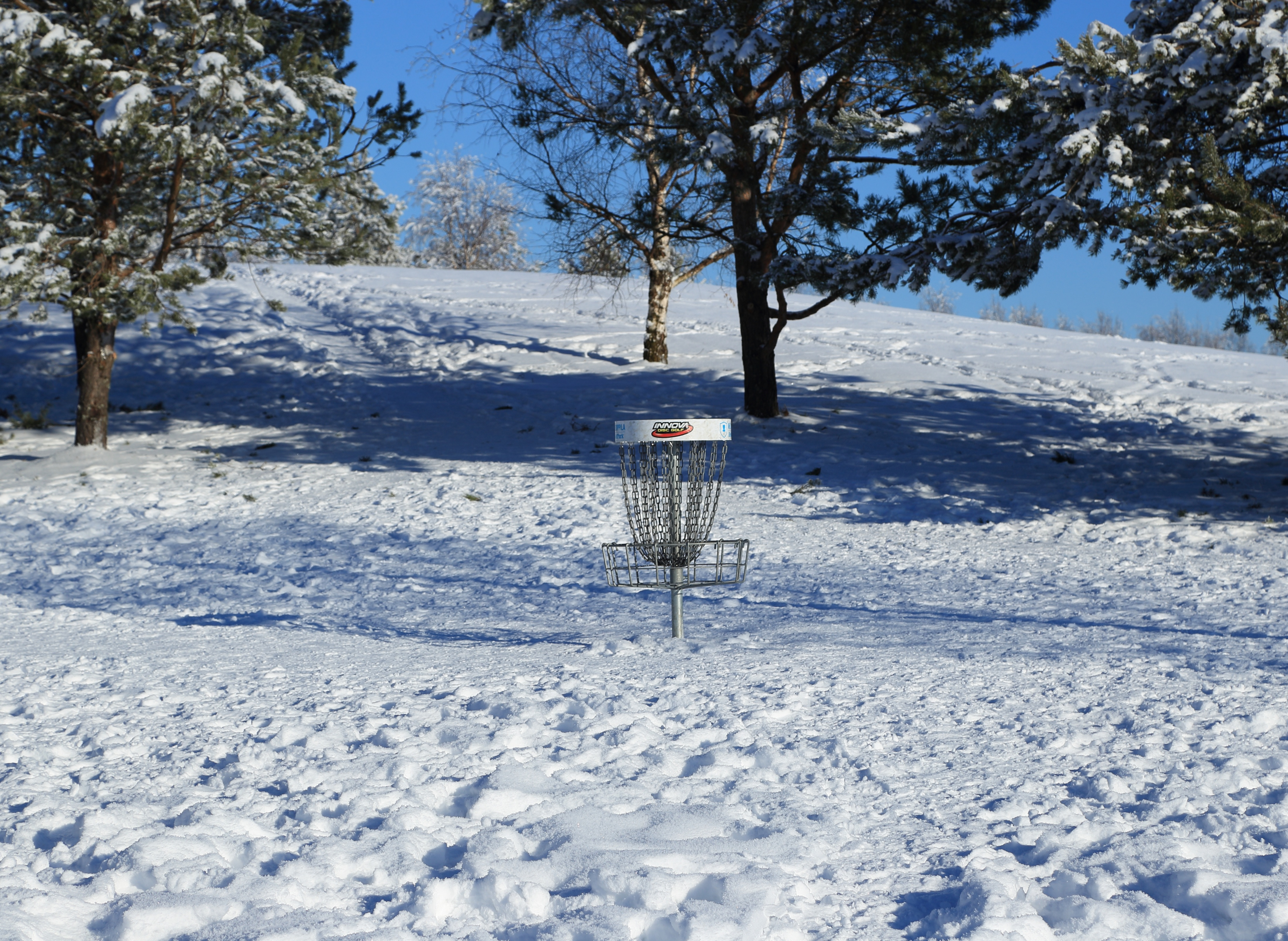 A disc golf basket at the Meri-Toppila park in Oulu.